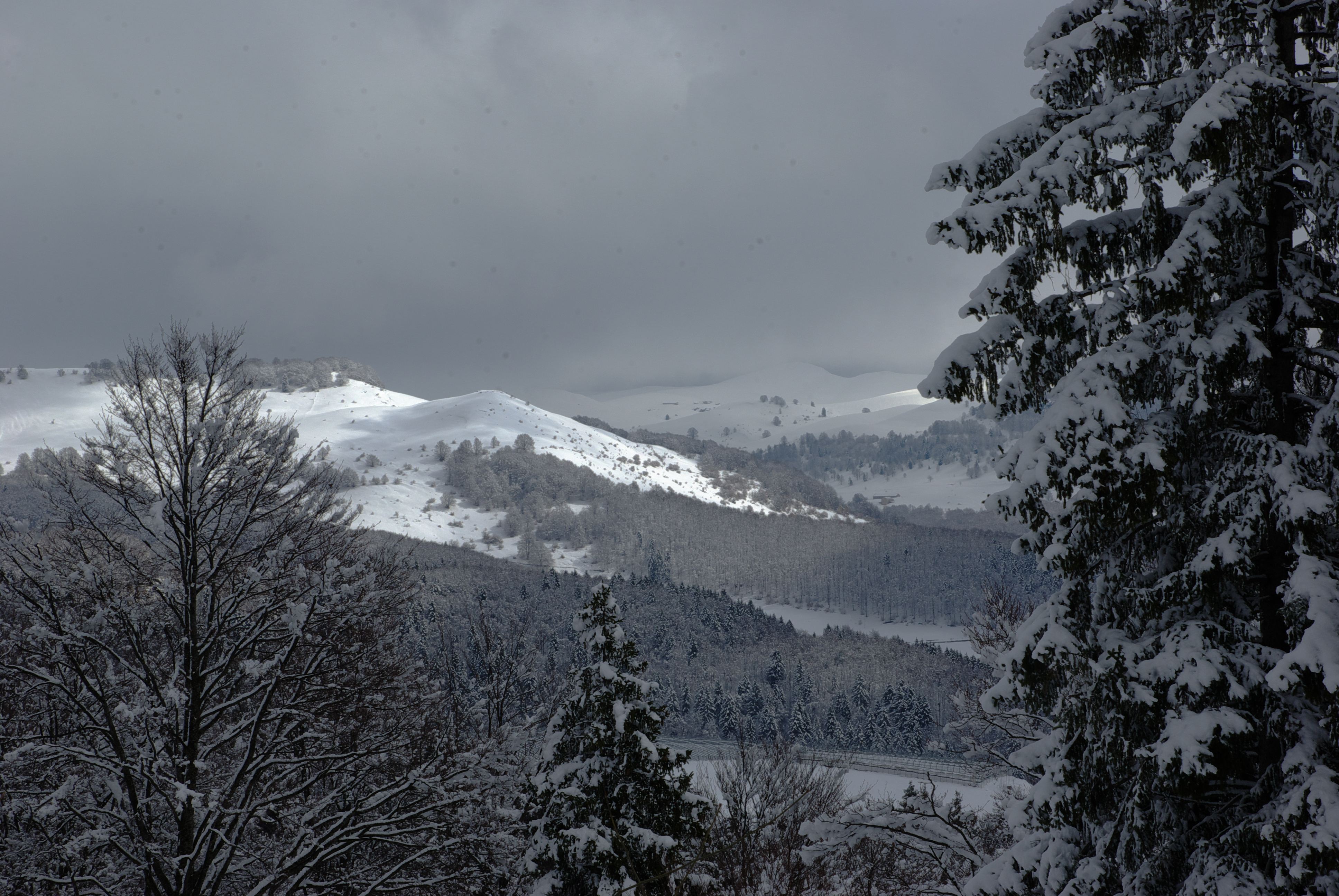 Bosco Chiesanuova (Grietz Dossetti Tinazzo) Lessinia VR Italy 2013-04-01 photo CTG ACA LESSINIA Paolo Villa